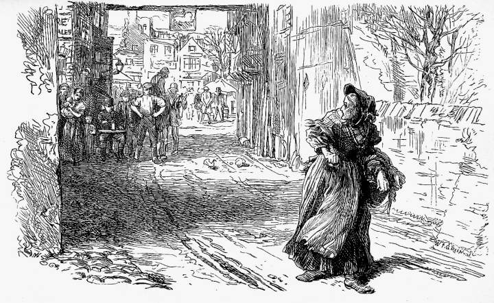 Betty Higden runs away